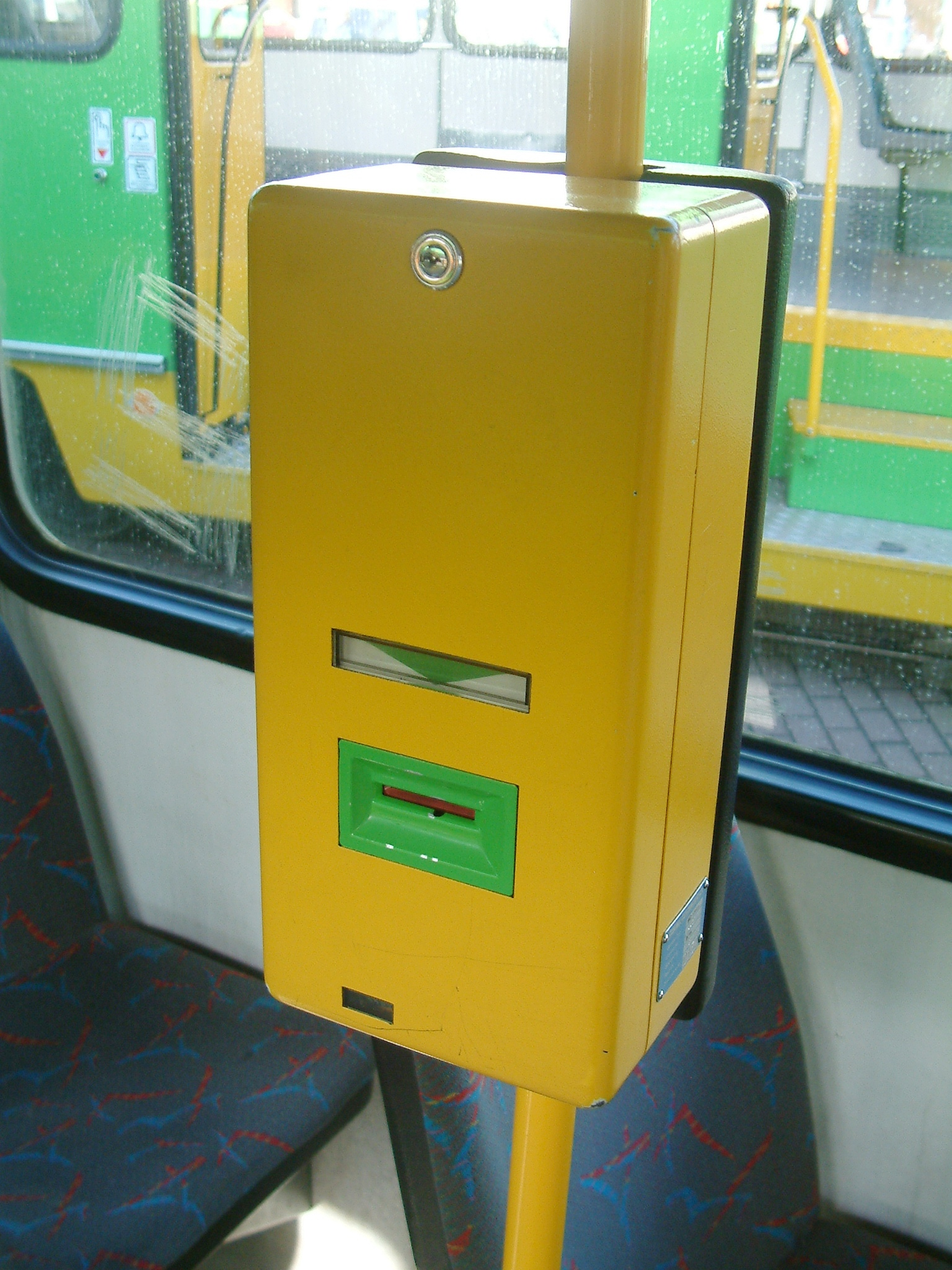 Dater, Tram Tatra/HCP RT6N1 in Poznań.